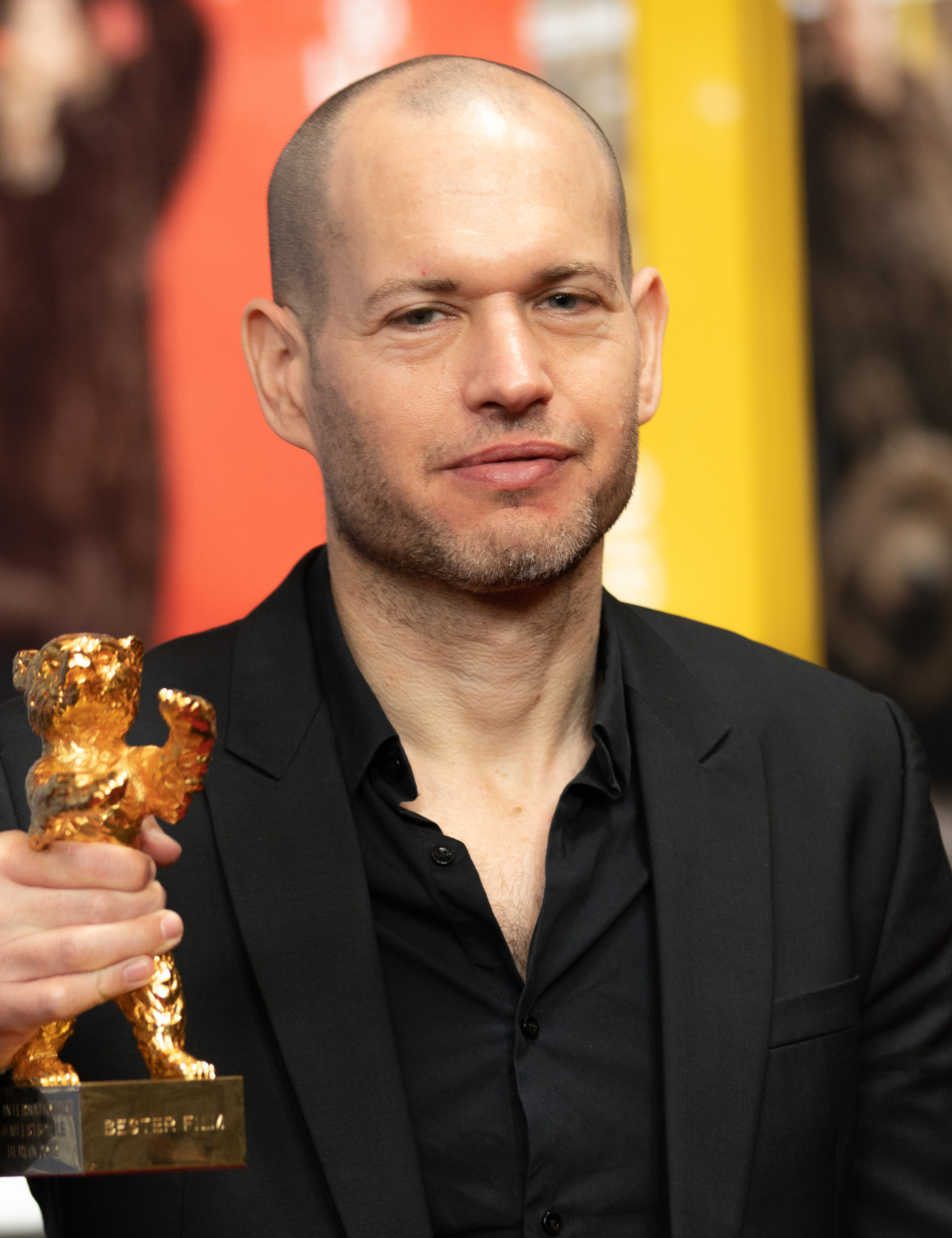 Nadav Lapid with the golden bear for the film "Synonyms" at the Berlinale 2019